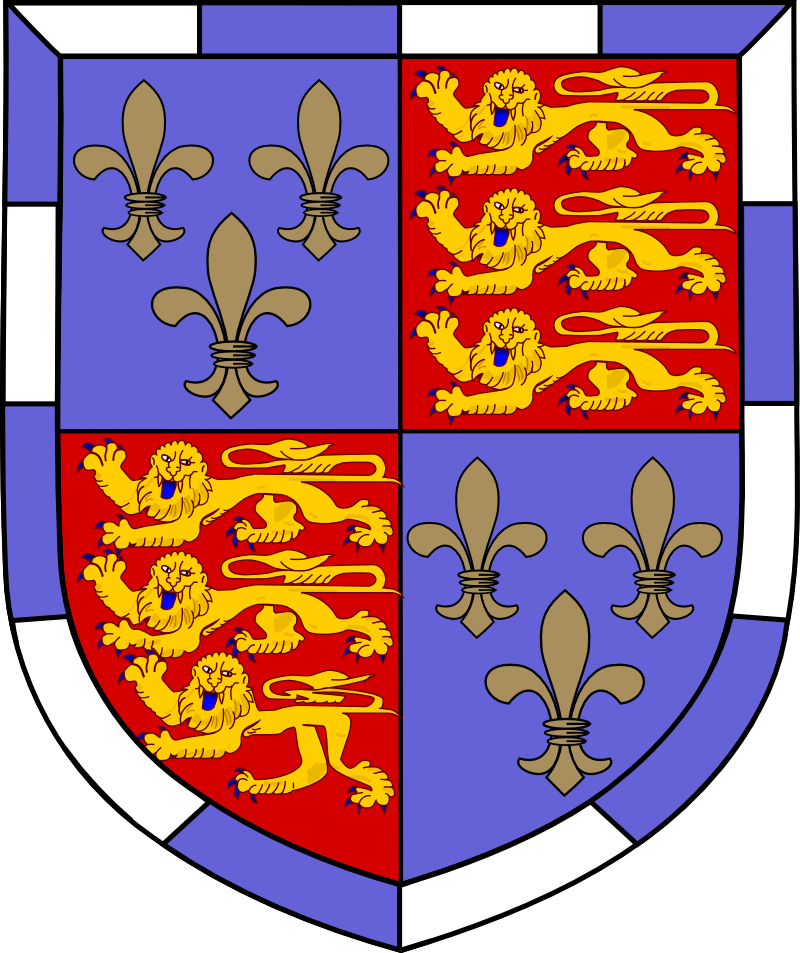 Description:Crest of St. John's Collge, Cambridge